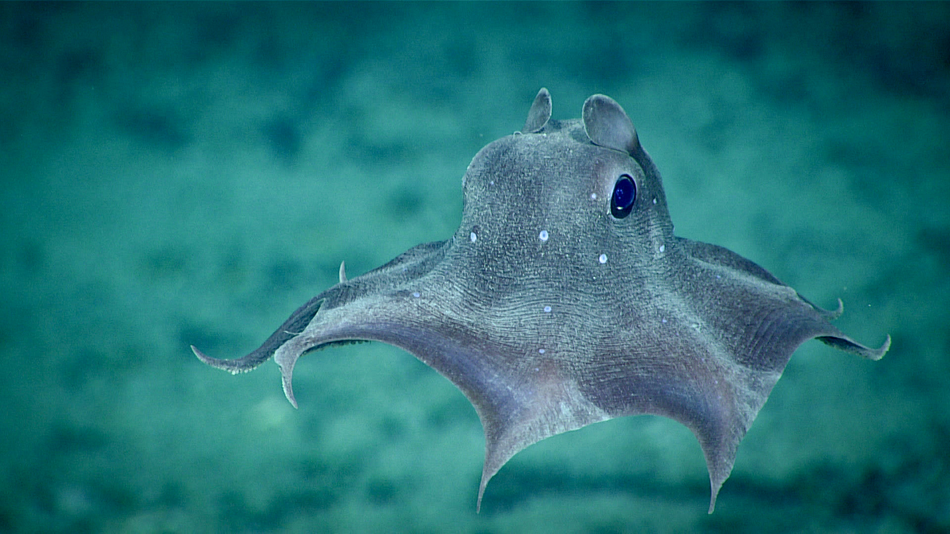 Everyone loves a dumbo octopus! We observed this one, an Opisthoteuthis agassizii, during Dive 12 of the 2019 Southeastern U.S. Deep-sea Exploration. The dots are clear windows in the skin. We are uncertain of their purpose, but suspect they may gather additional light. Image courtesy of the NOAA Office of Ocean Exploration and Research, 2019 Southeastern U.S. Deep-sea Exploration. Learn more about the expedition: [Source: ]